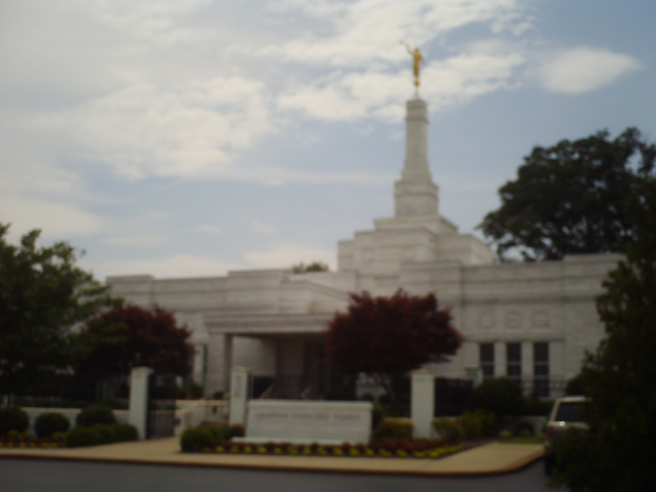 The Memphis Tennessee Temple as seen from the front (east side).